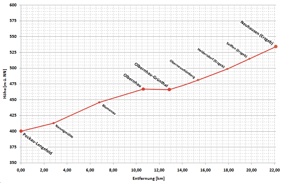 simplified altitude-profile of railway track Pockau-Lengefeld–Neuhausen